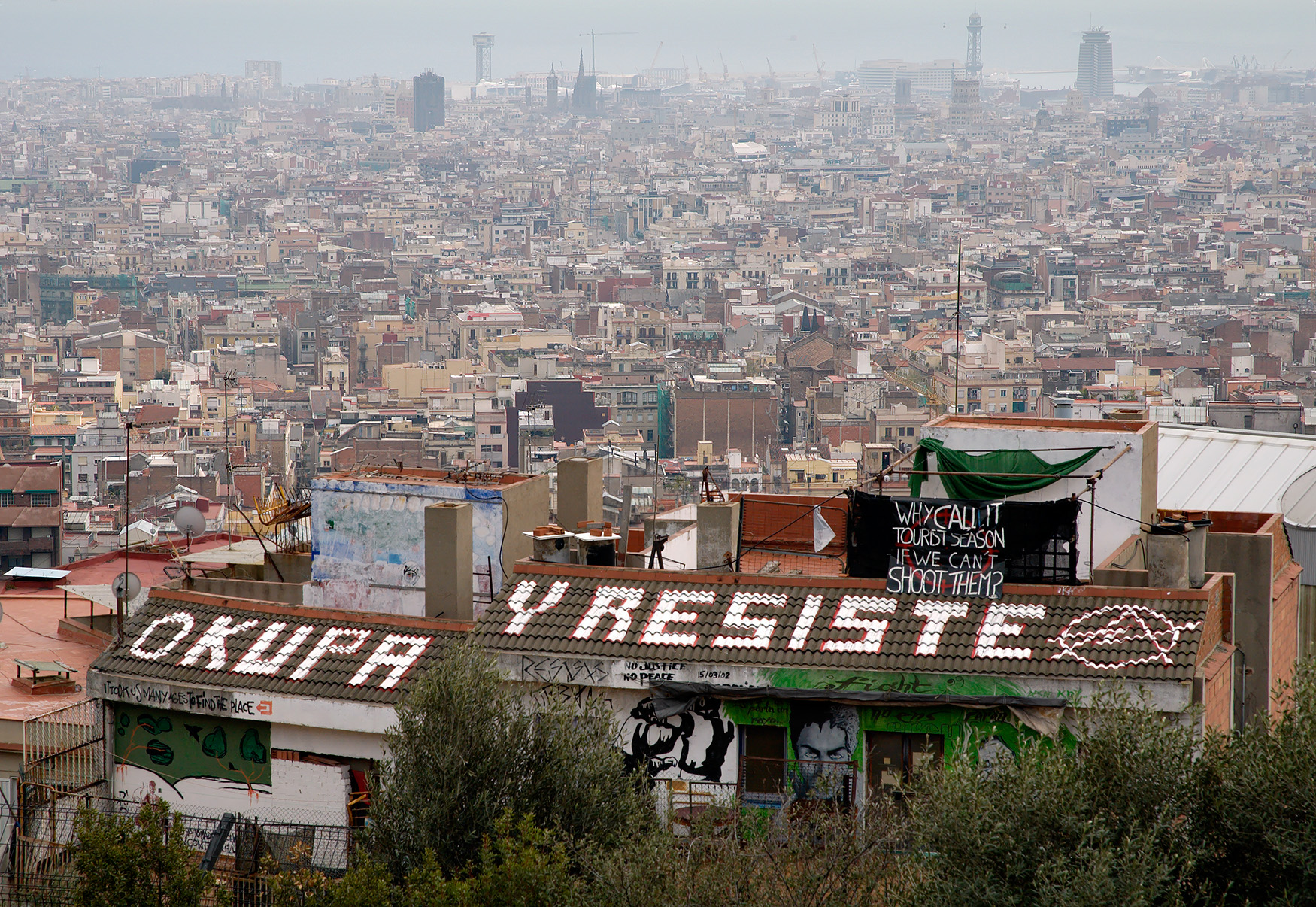 Casa de Okupas (Squat house), Parc Guell, overlooking Barcelona, 2007